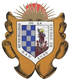 Coat of arms of the city of San Juan, in San Juan Province of Argentina.